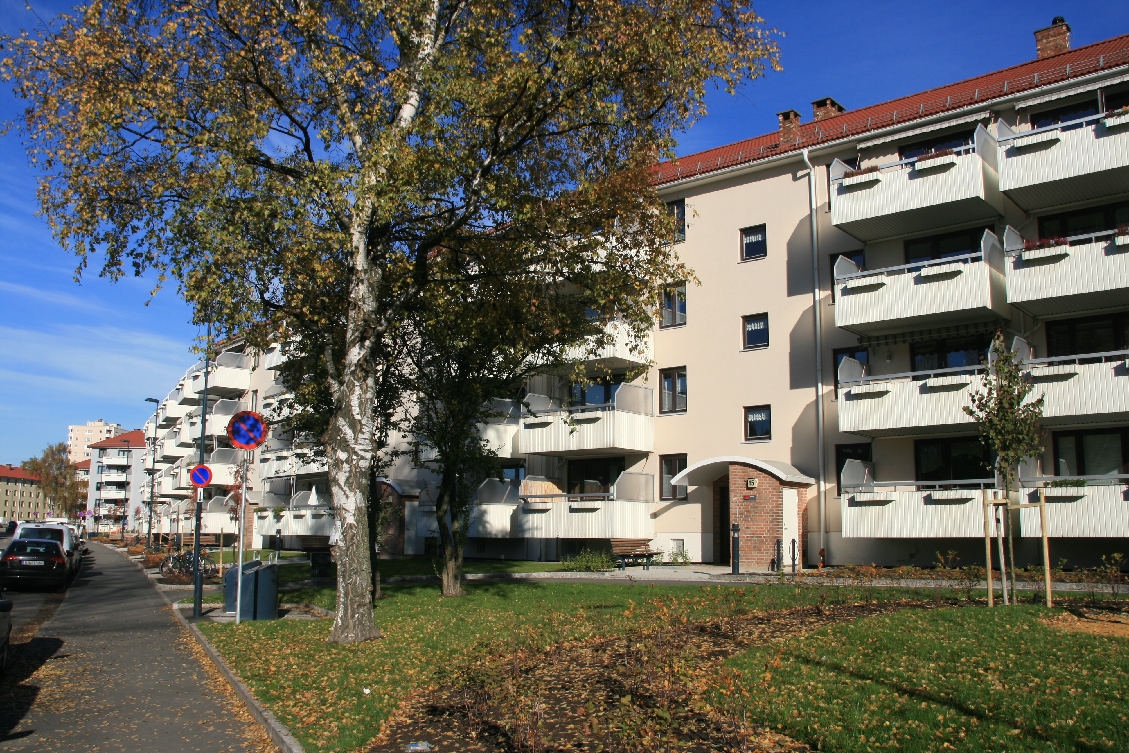 Residential buildings in Teisen, Oslo. 2010